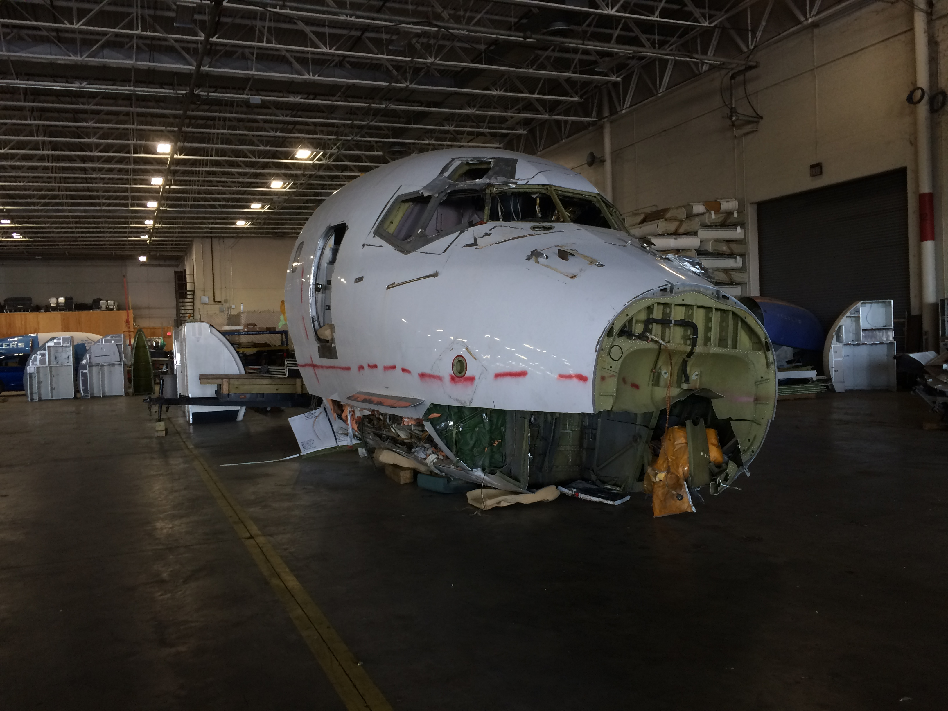 The scrapped nose section of a Falcon Air Express MD-83 in a hangar at the Lakeland Linder Regional Airport.